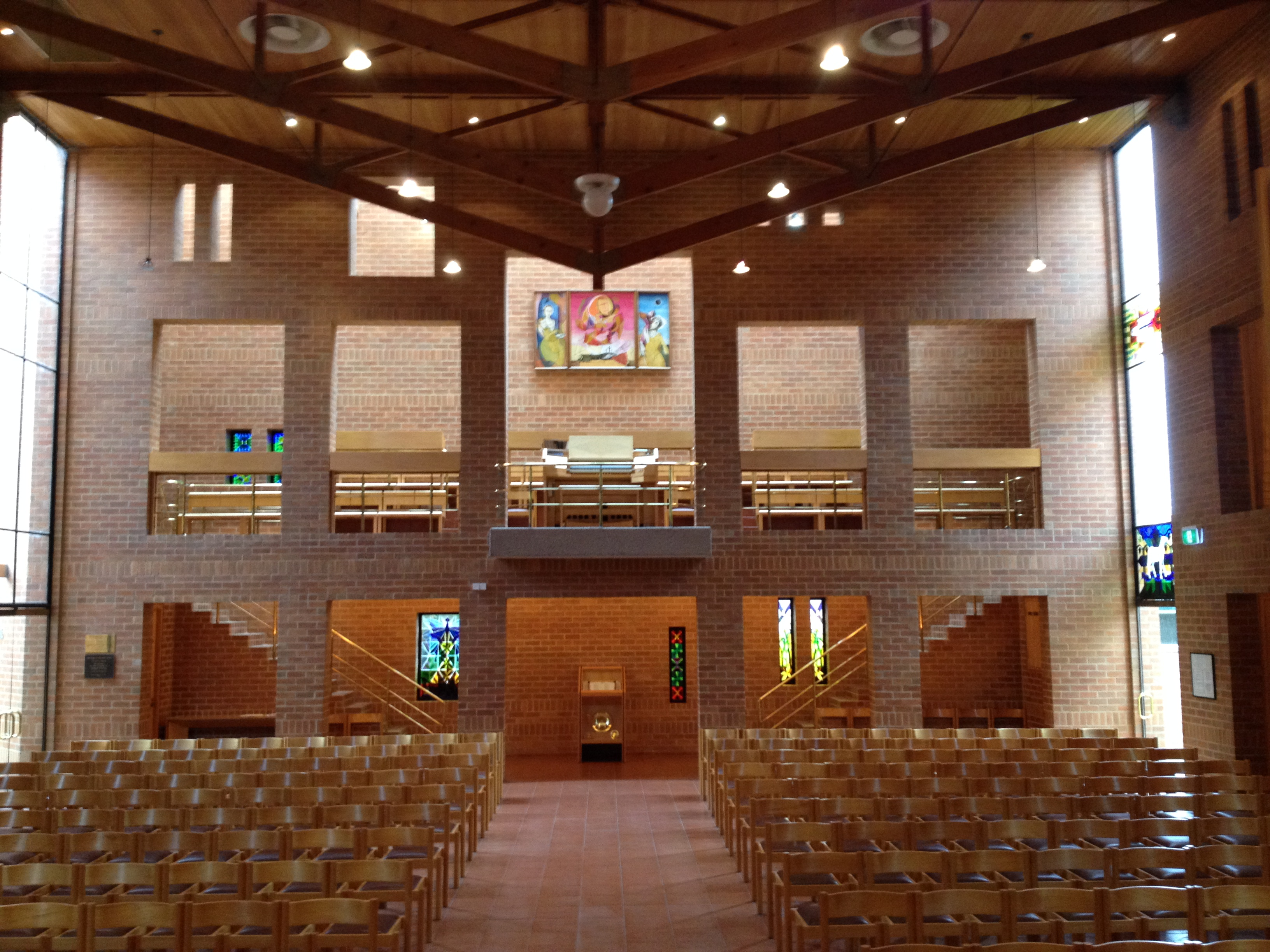 Haileybury Chapel, Melbourne, Choir Gallery